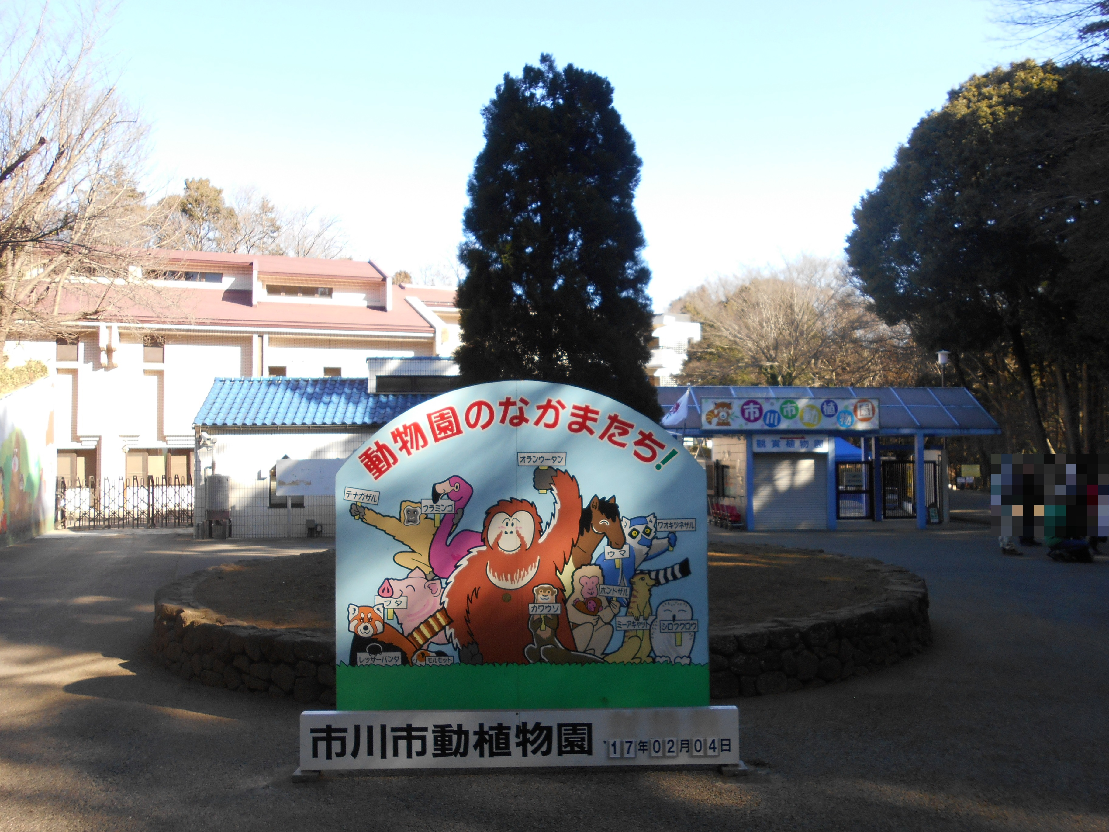 Main gate of the Ichikawa City Zoological and Botanical Garden